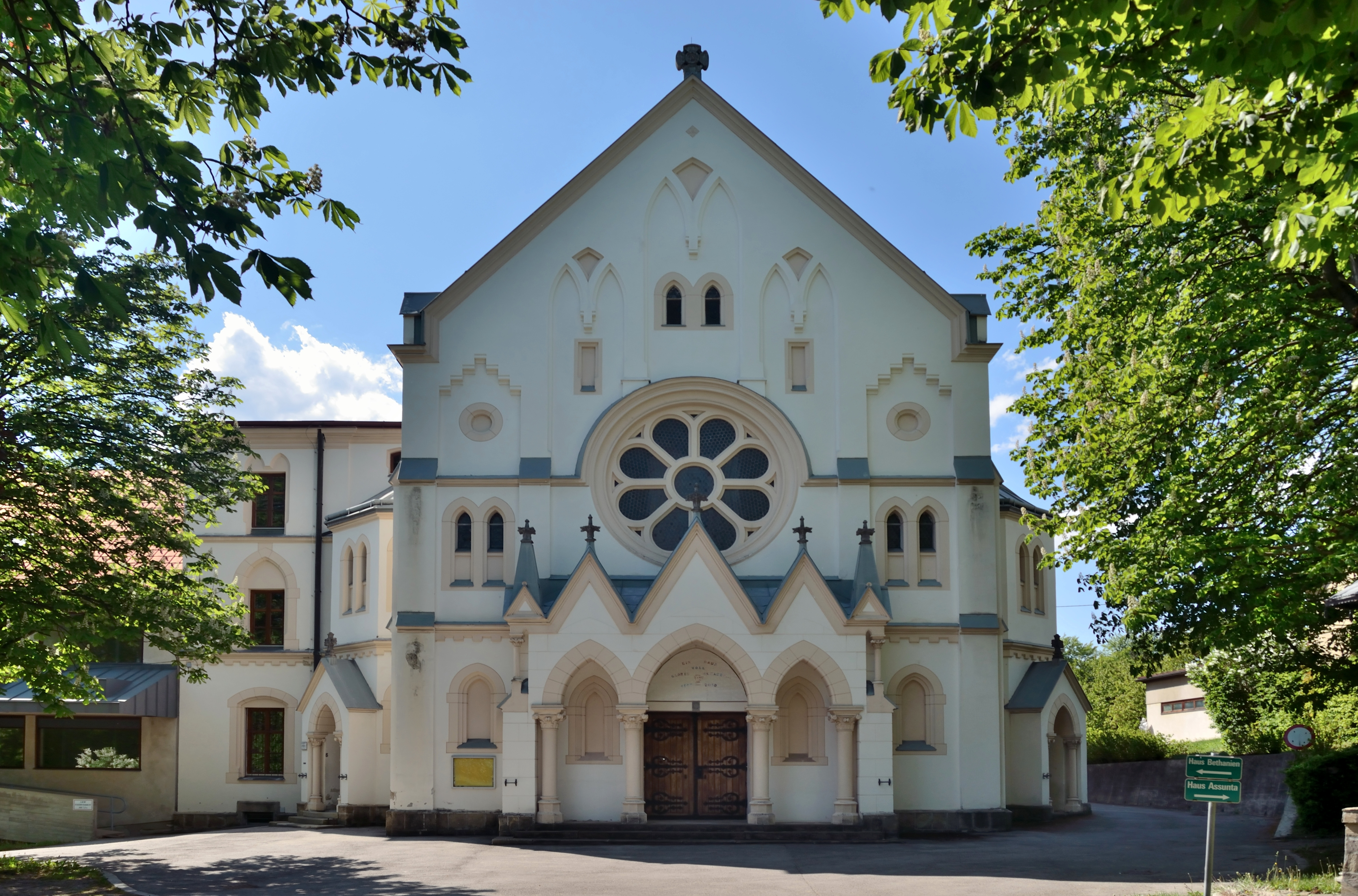 Church of the so called Annunziatakloster der Franziskaner-Missionarinnen „Am Stein“ in Maria-Anzbach, Lower Austria. The monastery is protected as a cultural heritage monument. The momnastery was built starting with 1899, the church in 1908/10.